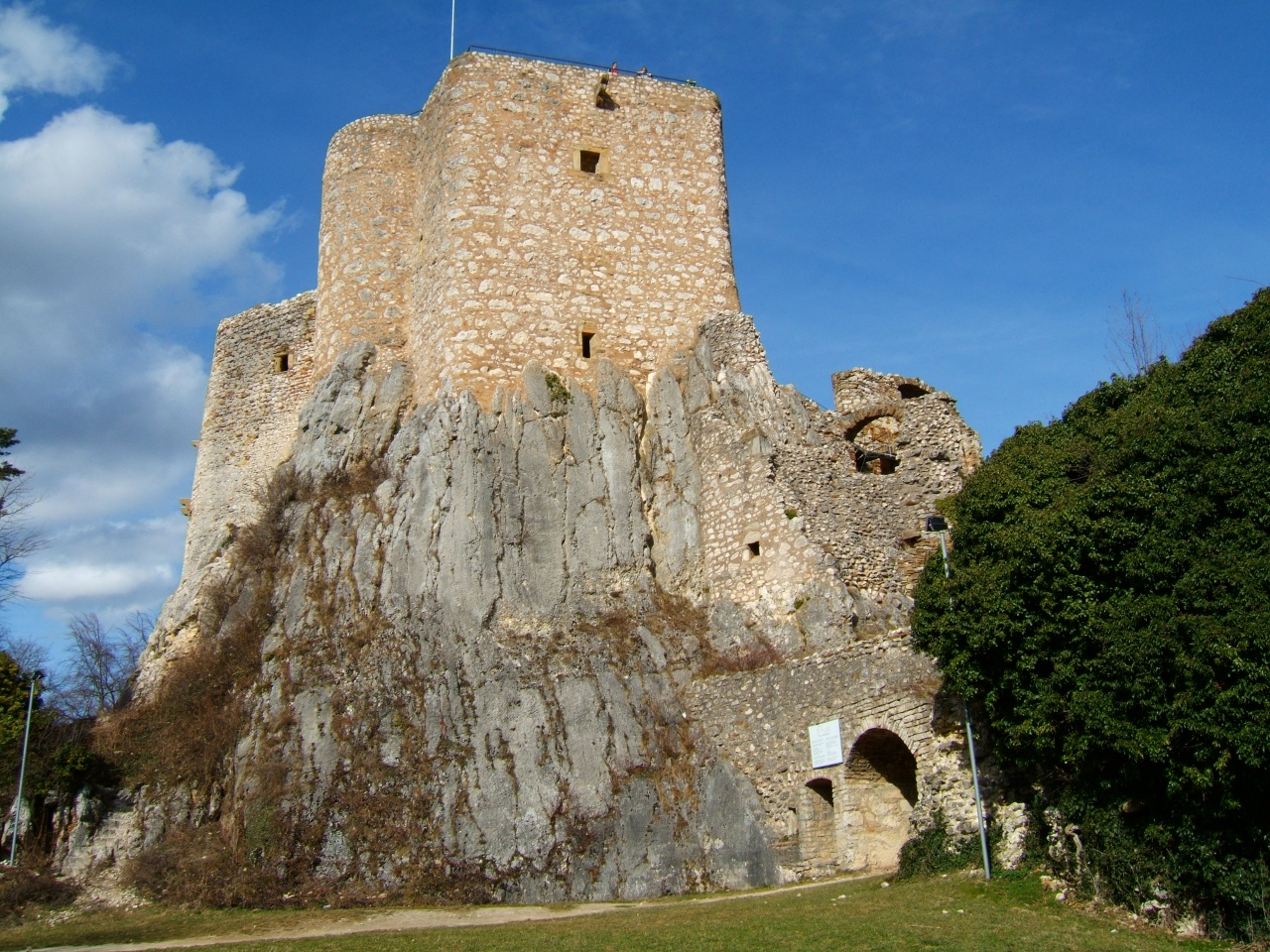 Ruins of Castle Landskron (Chateau du Landskron, Burg Landskron), Leymen, Alsace, France, the keep and main entrance gate seen from the south.